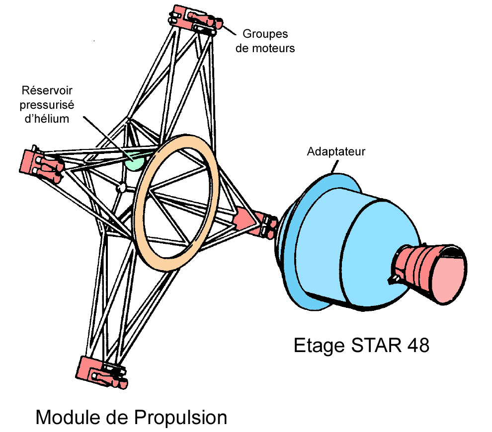 Diagram showing the thrusters and the Star 48 booster . Version with french labels.